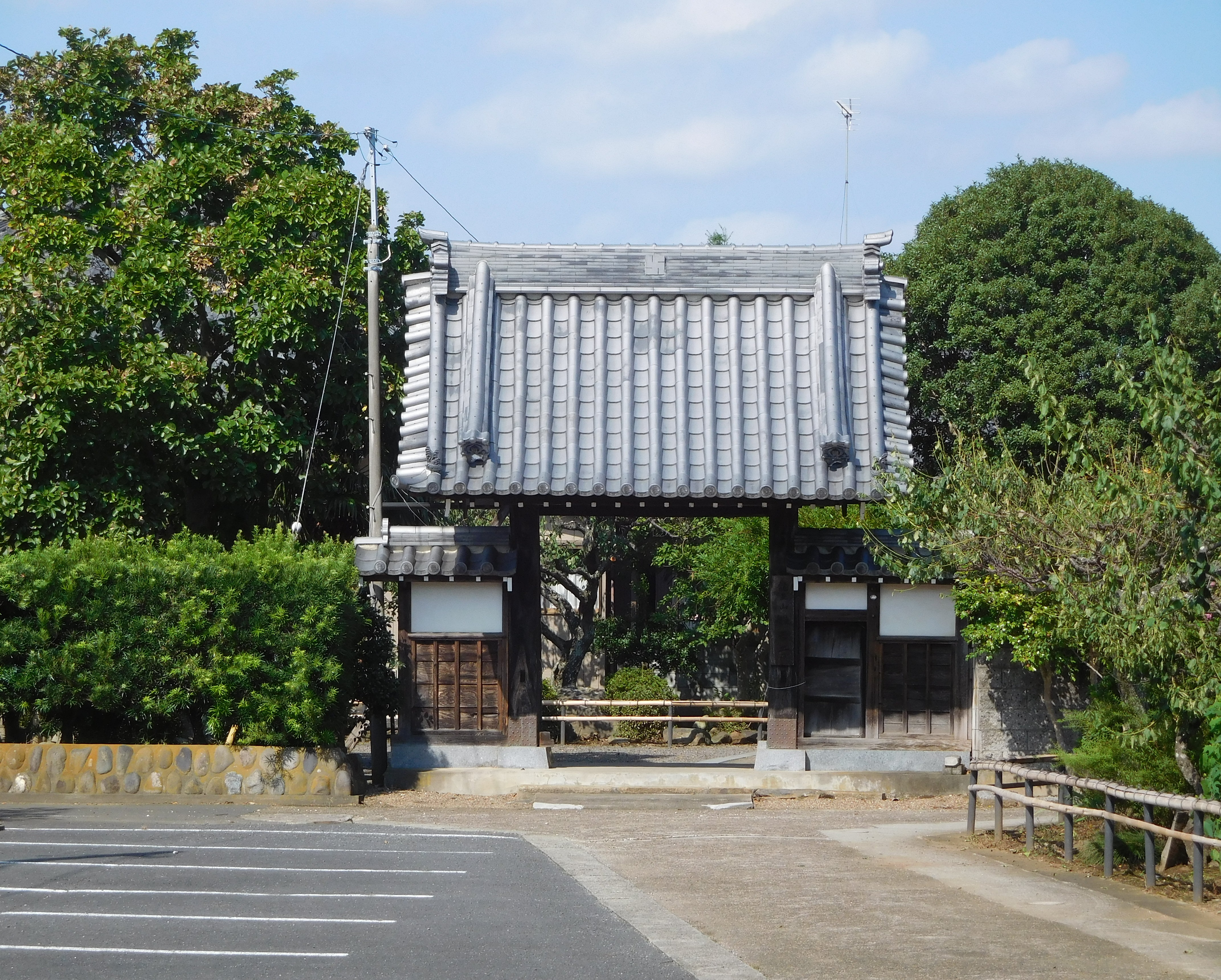 This is Han-nya-ji Temple in Tsuchiura, Ibaraki, Japan.